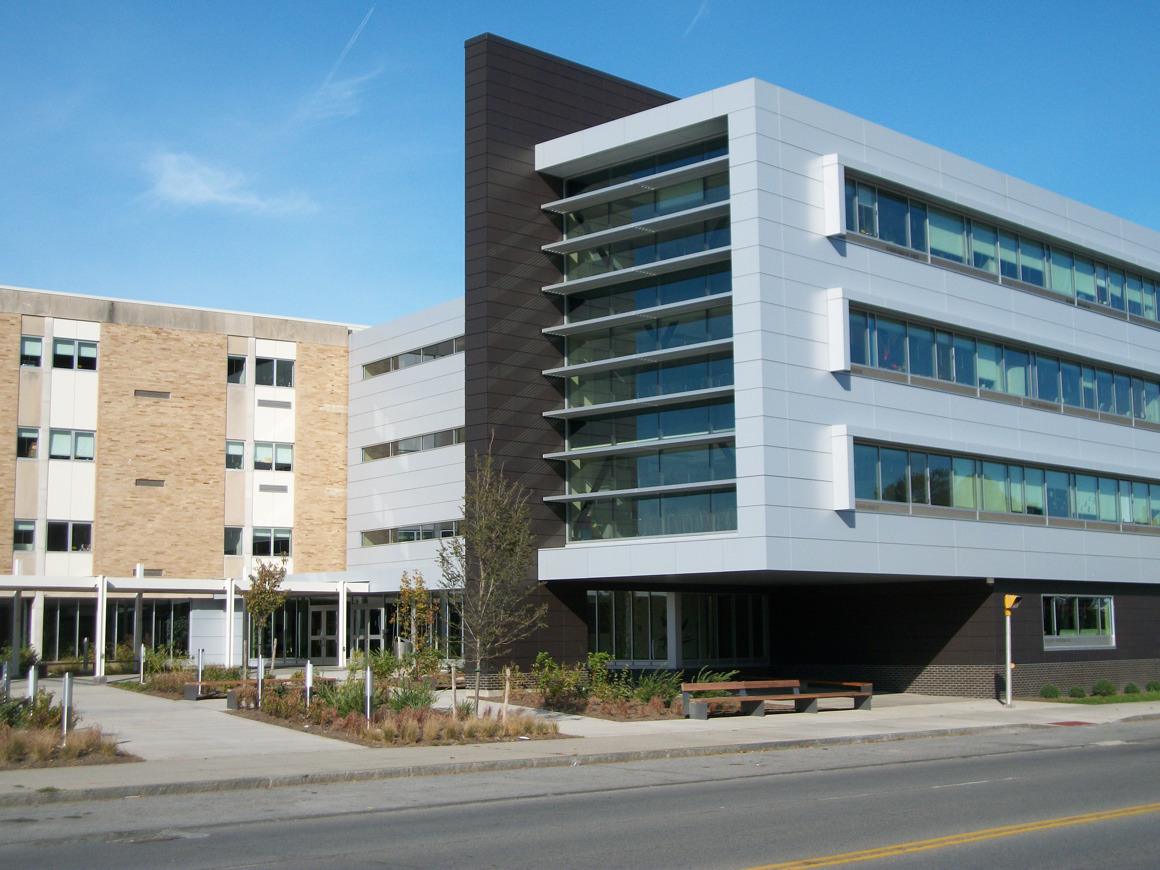 McKinley Vocational High School 1500 Elmwood Avenue, Buffalo, NY 14207